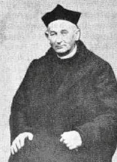 Picture of Norwegian saint, Ven. Karl Schilling (unknown source)